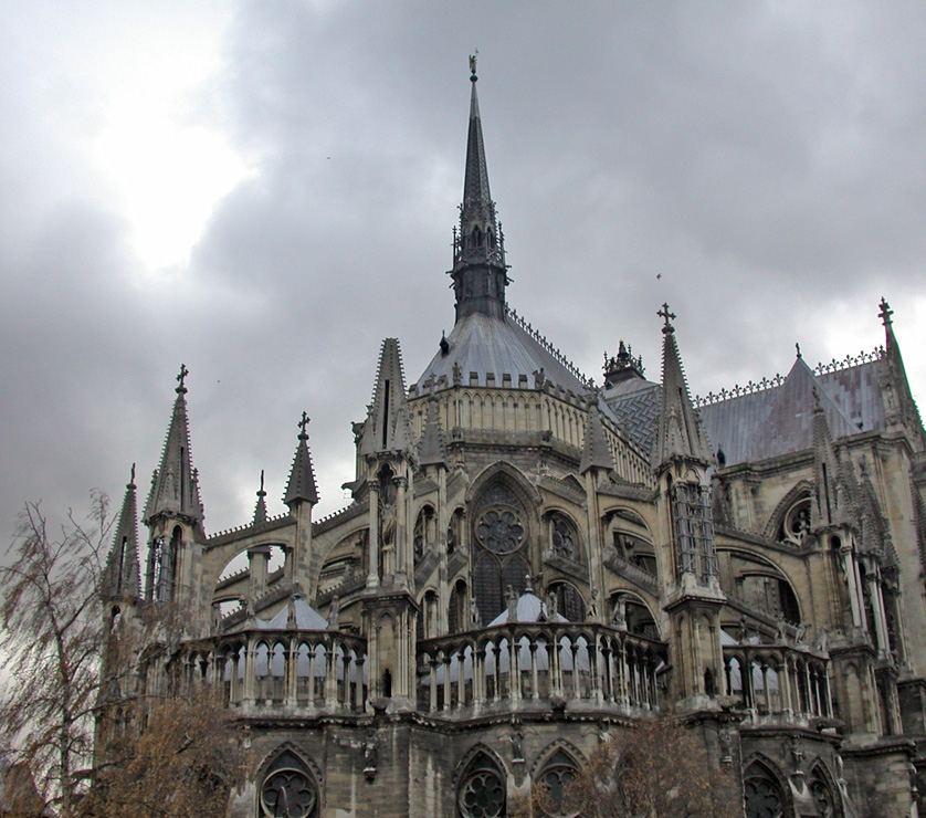 Rayonnant chevet (apse) of Notre-Dame de Reims Gothic cathedral, with flying buttresses